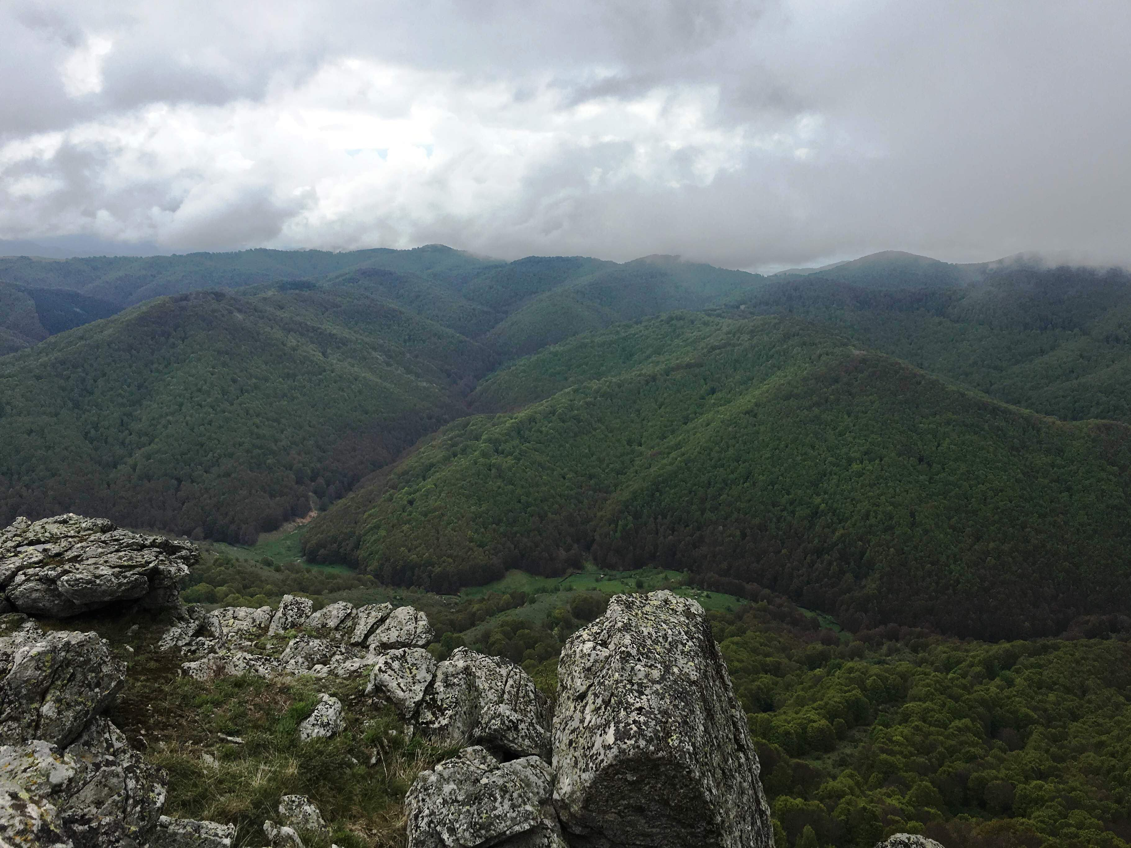 Landscape of Plačkovica, Macedonia.